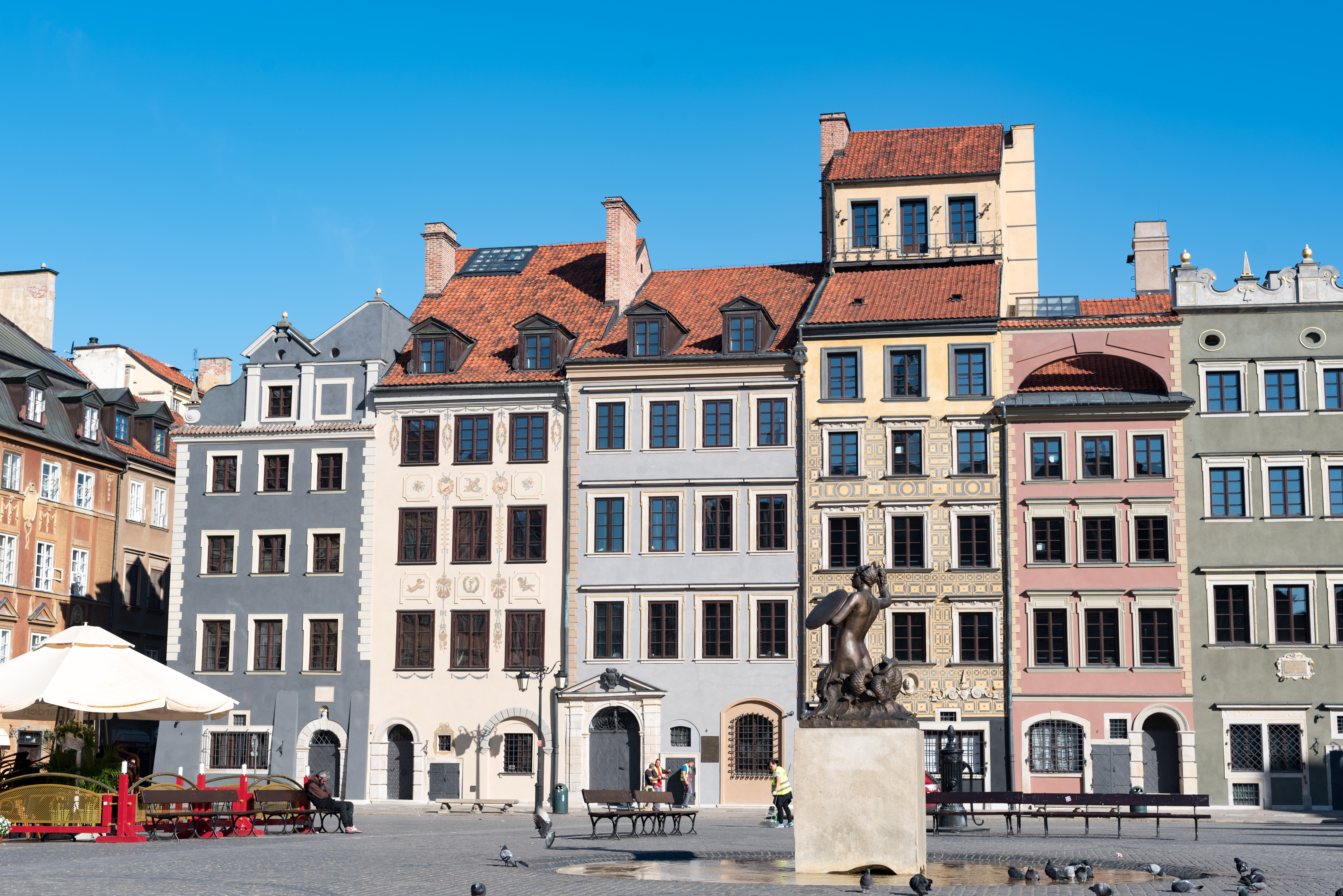 Warszawa, Rynek Starego Miasta 42-34